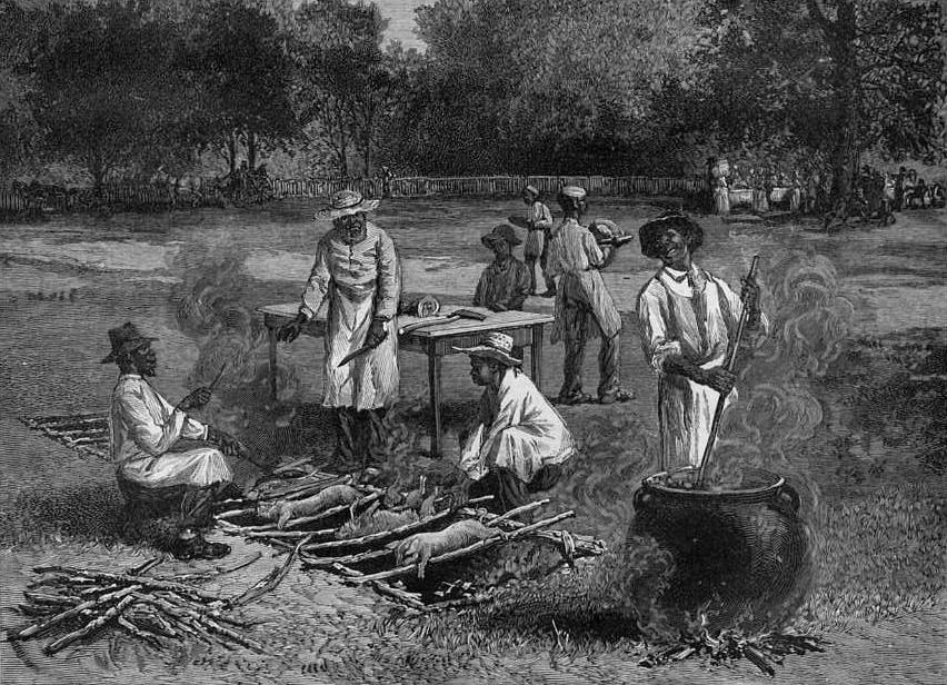 A Southern Barbecue, a wood engraving from a sketch by Horace Bradley, published in Harper's Weekly, July 1887.